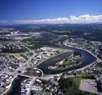 Photograph air(sight) off Matane_2009